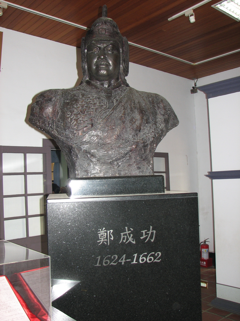 Statue of Koxinga in Old Fort of Anping, Tainan, Taiwan Bân-lâm-gú: Tēnn Sîng-kong ê siōng, tī Tâi-uân Tâi-lâm An-pîng. Bân-lâm-gú: 的像，佇台灣台南安平。